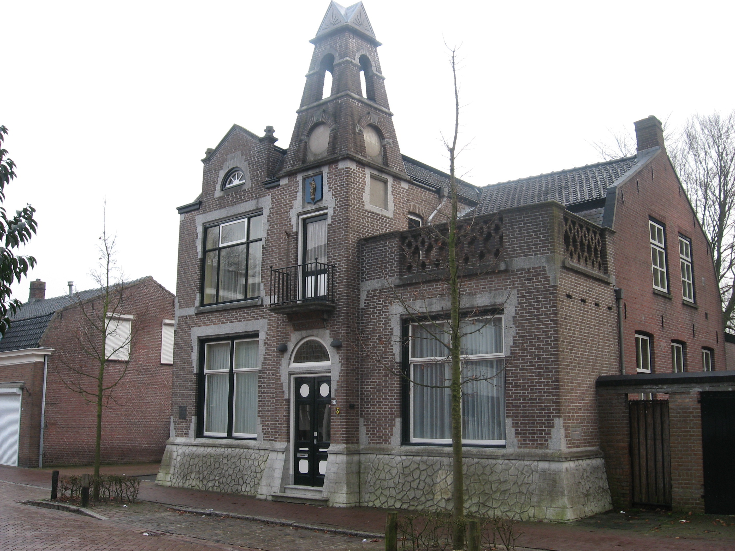 Rijksmonument in Gilze